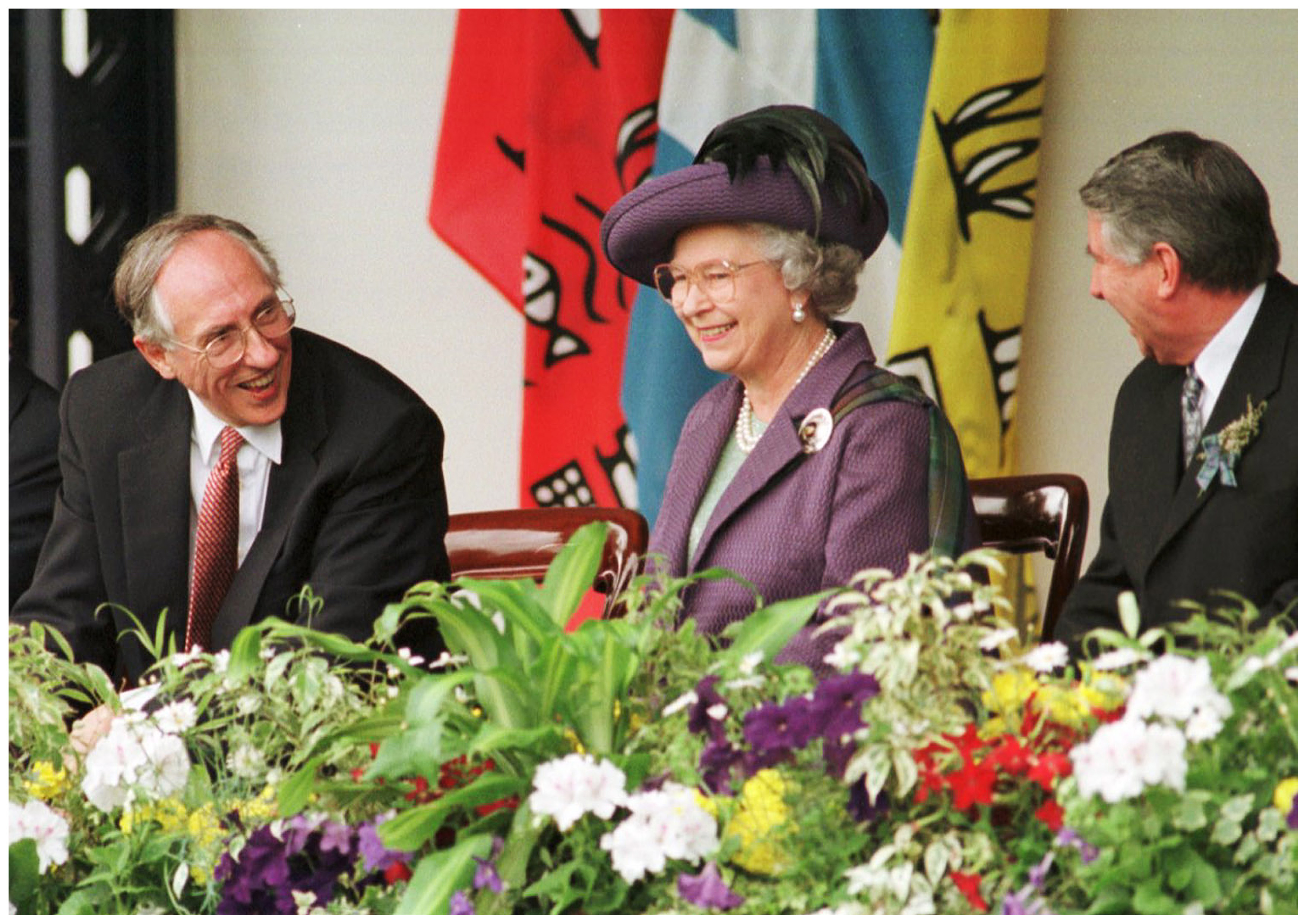 The Queen with Donald Dewar, First Minister of Scotland, officially reconvenes the Scottish Parliament in 1999, the first time the Scottish Parliament has been in operation since 1707.